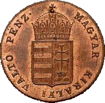 photo of an obsolate coin